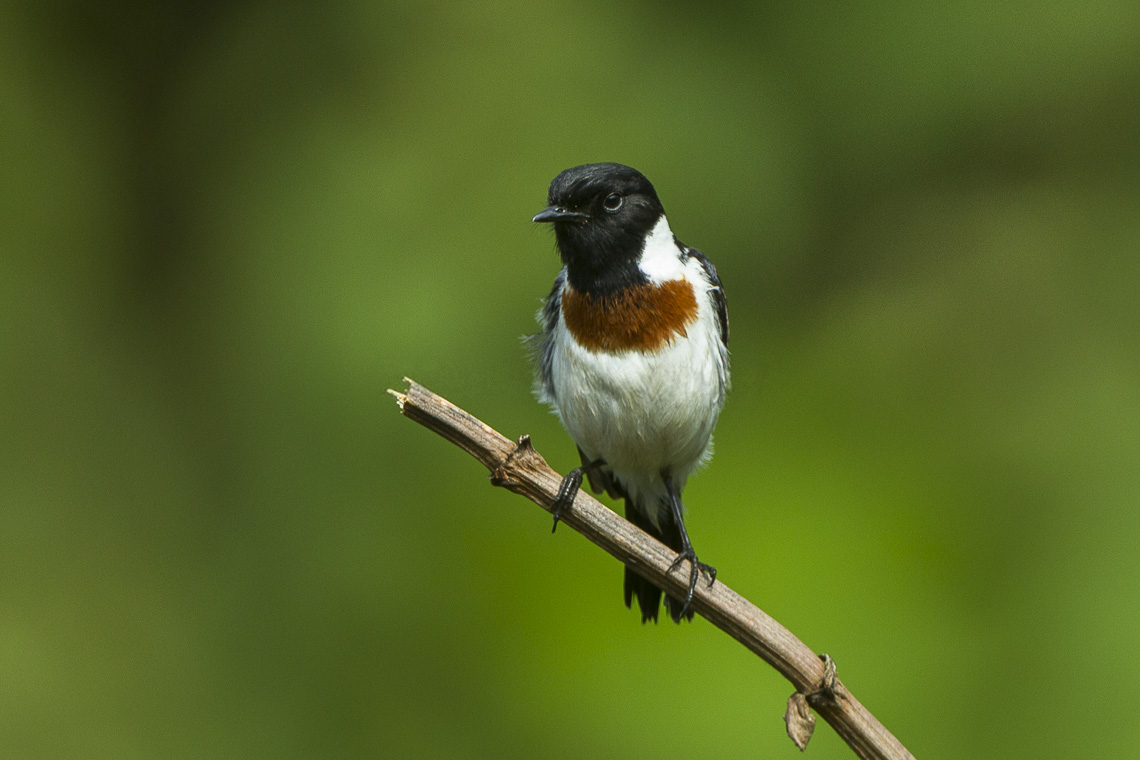 African Stonechat - Kenya_S4E7511